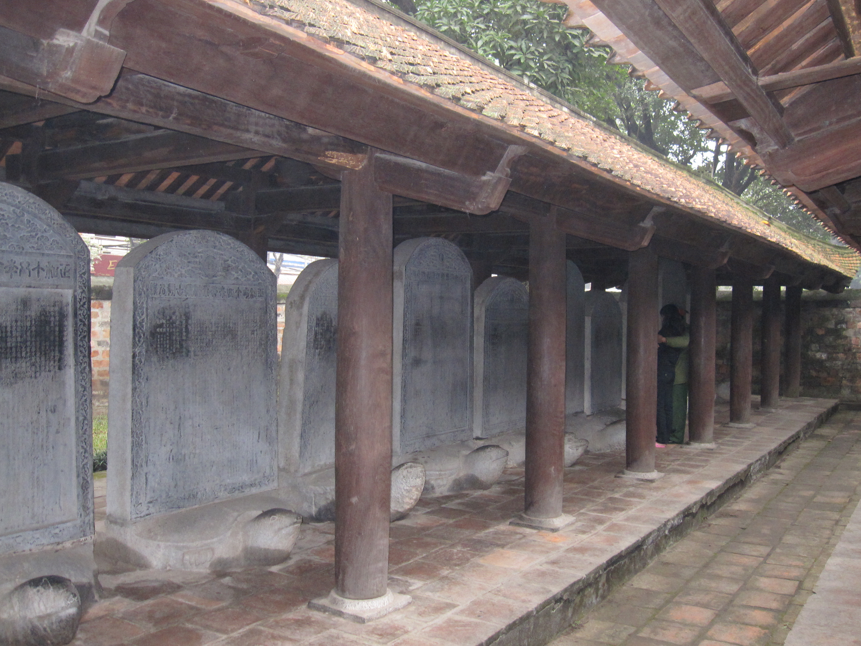 Stelae of Doctors at the Temple of Literature, Hanoi.